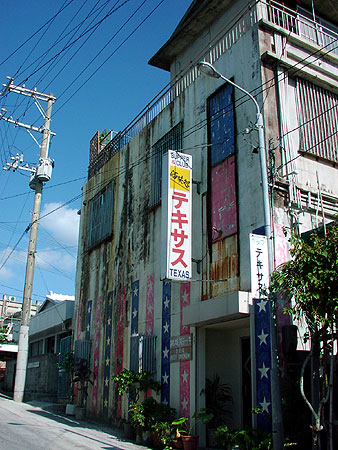 Henoko district